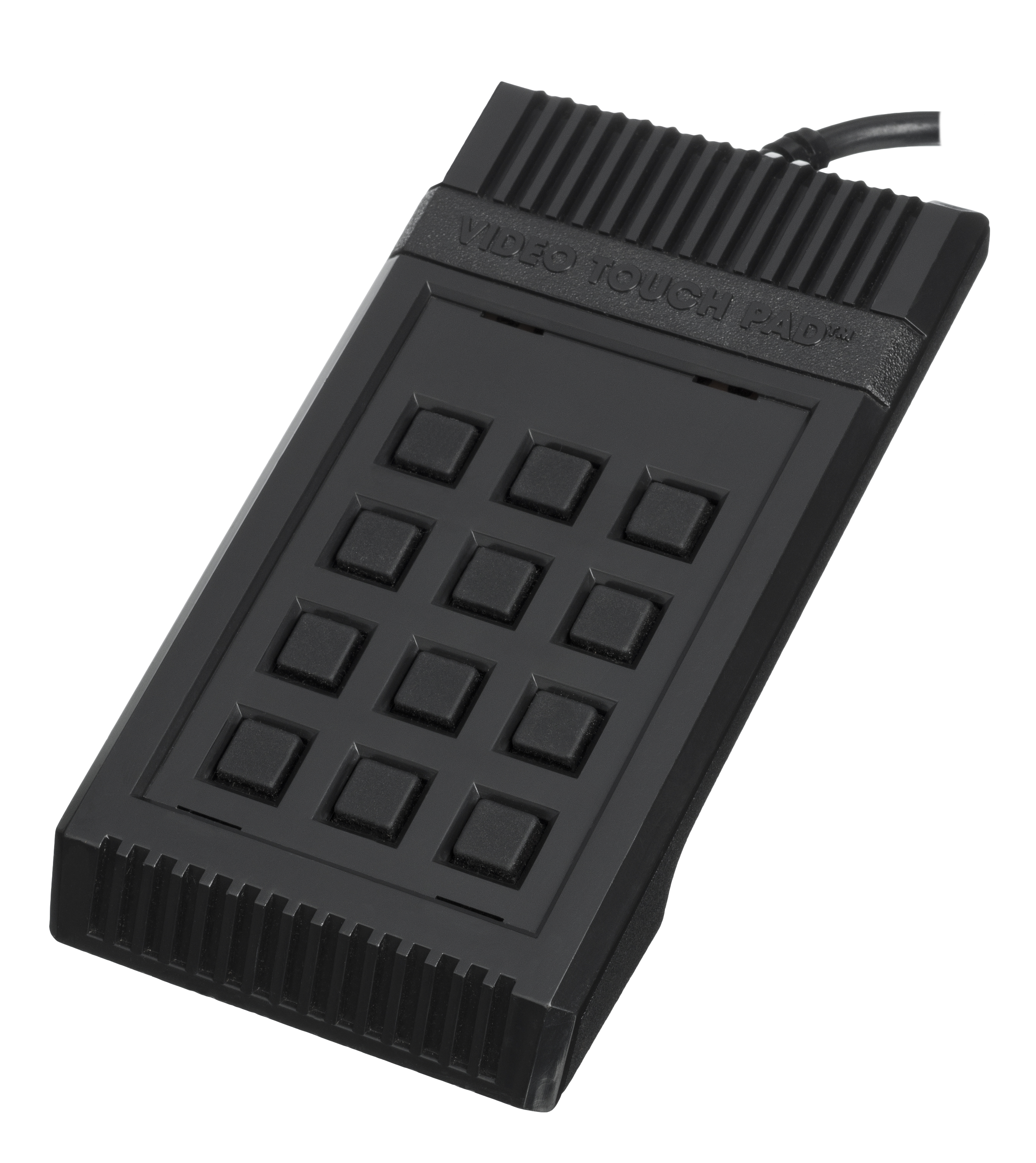 The Video Touch Pad controller for the Atari 2600 video game console. This controller was shipped with the game Star Raiders and was the only game that utilized it.